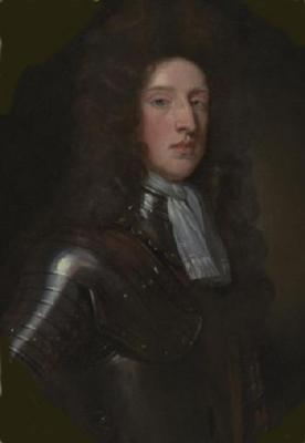 Portrait of Archibald Hamilton of Riccarton and Pardovan